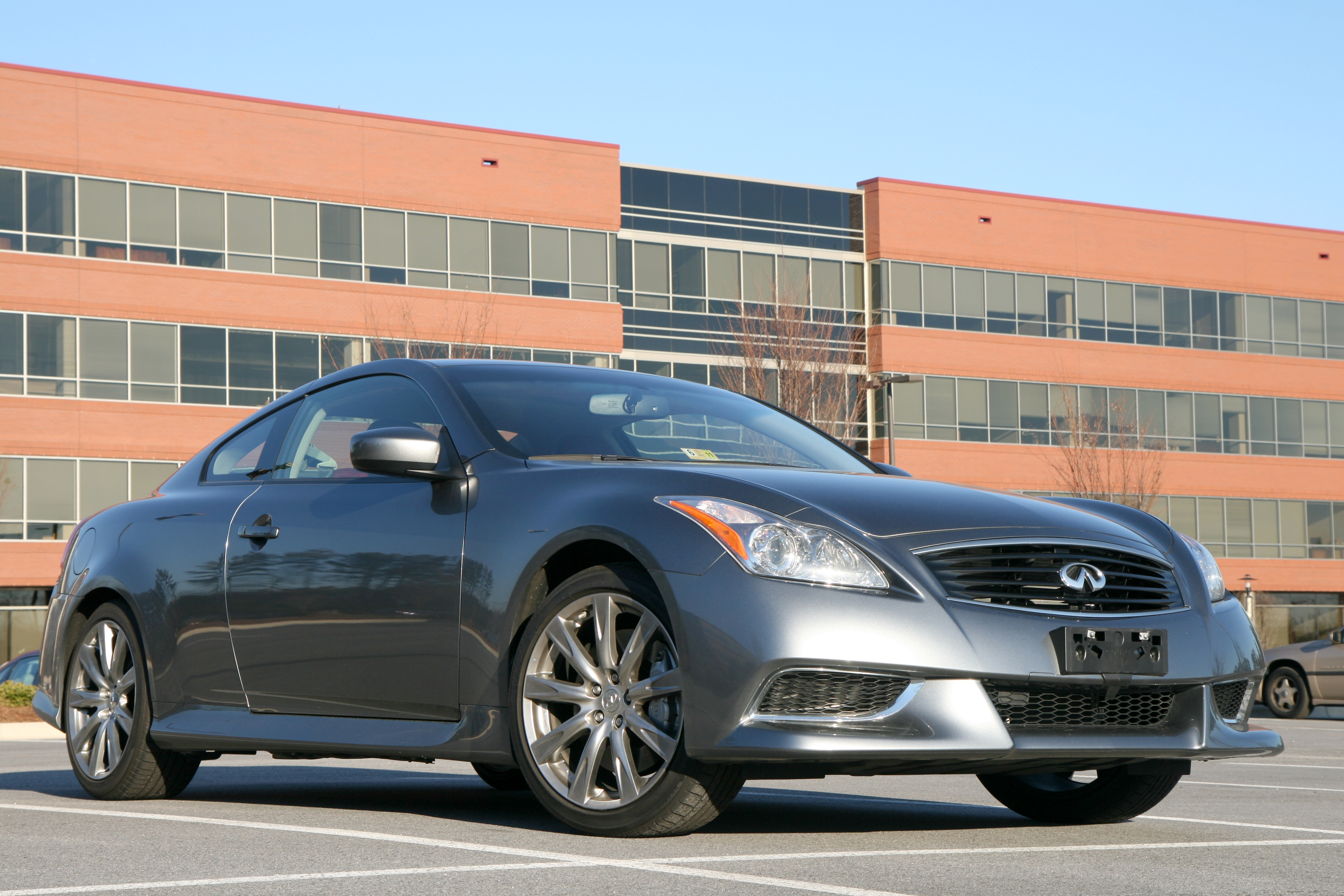 An Infiniti G37 IPL coupe parked in front of Carlisle, an office building on Emperor Boulevard in Durham, North Carolina.